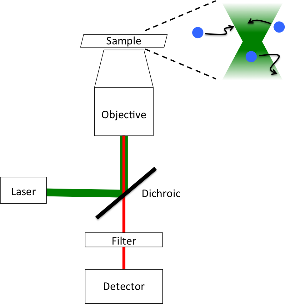 A basic diagram of a fluorescence correlation spectroscopy instrument.